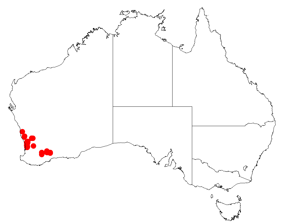 Acacia drewiana occurrence data from Australasian Virtual Herbarium downloaded from on 8 December 2018